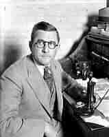 In 1931, under Police Chief Roy Steckel, and with strong support from City Council President Sanborn, the Los Angeles Police Department began using radio to help fight crime.